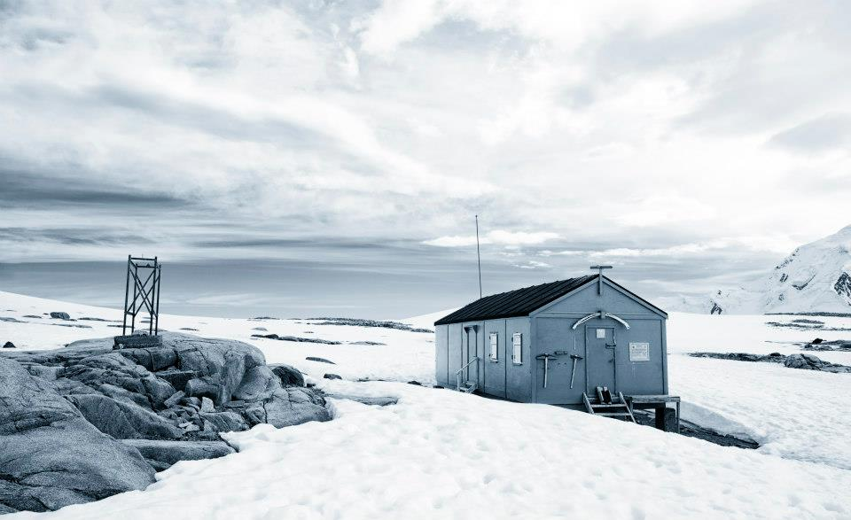 Two structures were erected on the shores of Dorian Bay; the Argentinean Refugio Bahia Dorian in 1957, and a larger building known as the Damoy Hut in 1975, where it served flights to and from a summer-use ice-strip for aircraft used before the sea-ice cleared near Rothera Base. The Damoy hut and ice-strip were closed in 1995: the building is now listed as an Historic Site and Monument and is maintained and administered by the United Kingdom Antarctic Heritage Trust (UKAHT).